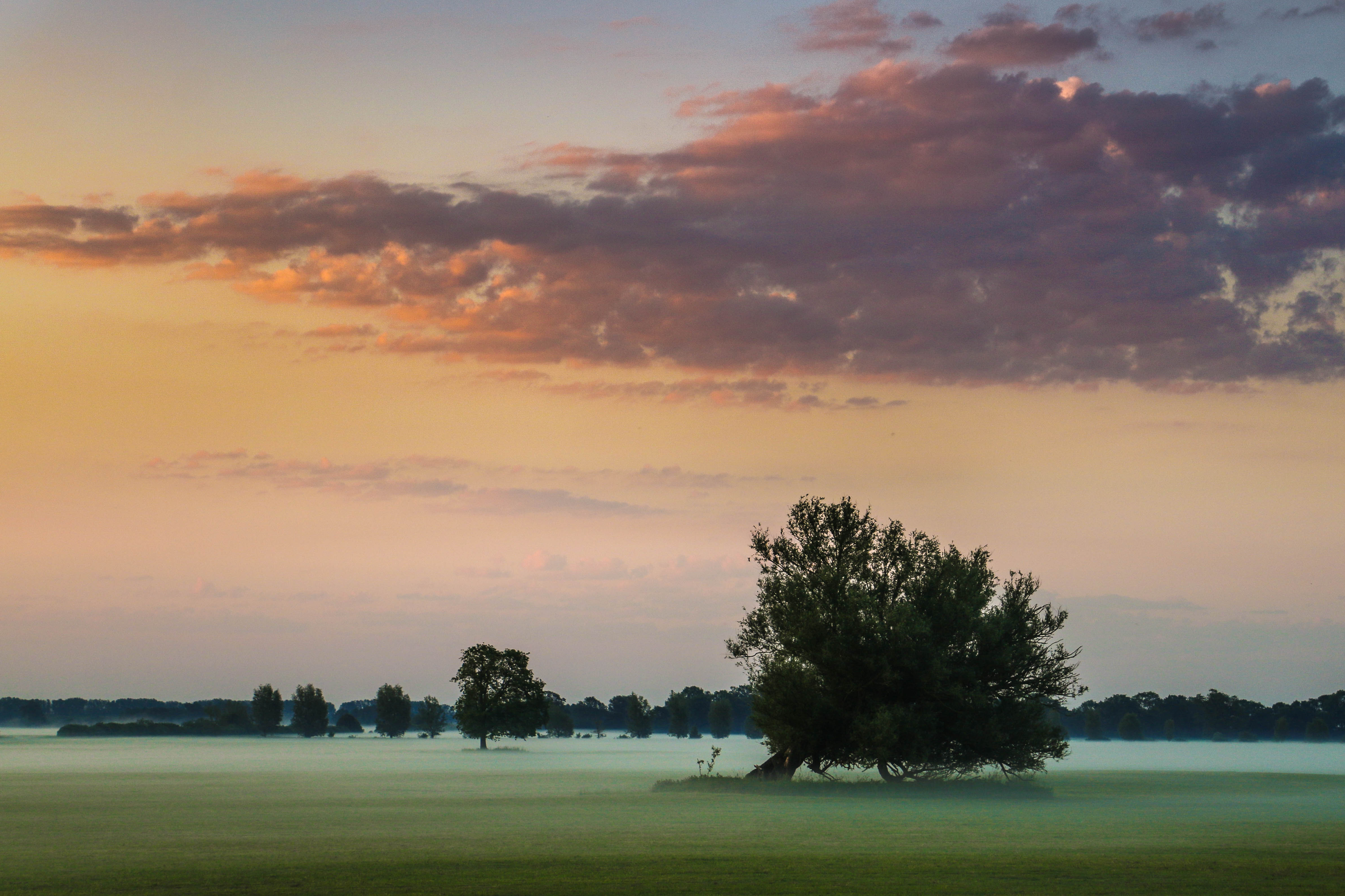 The picture was taken in biosphere reserve "Flusslandschaft Elbe" (Elbe River Landscape). Fog drifts above flat glasslands. The sun hasn't rise already.